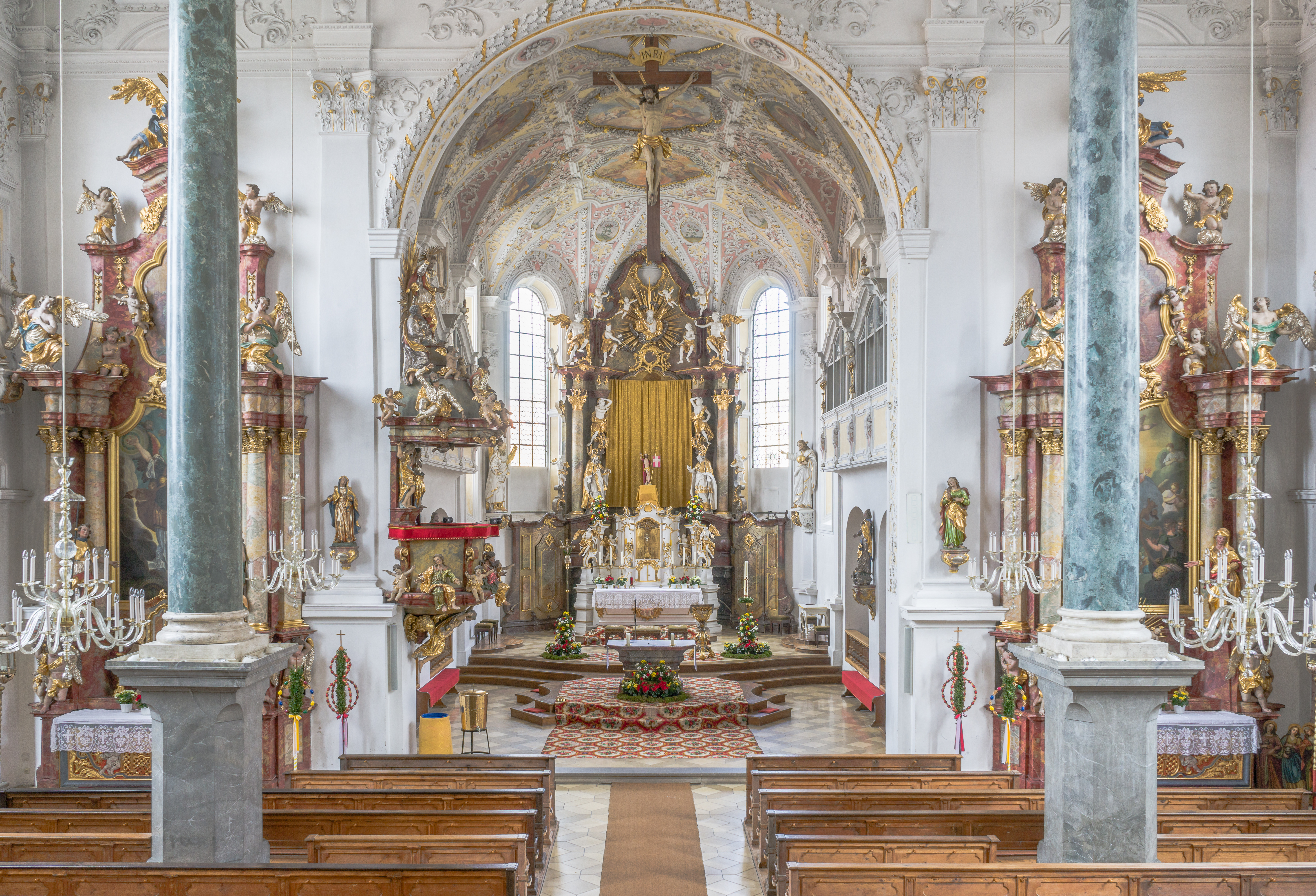 View into the Apse of St. Andreas in Babenhausen, Swabia.